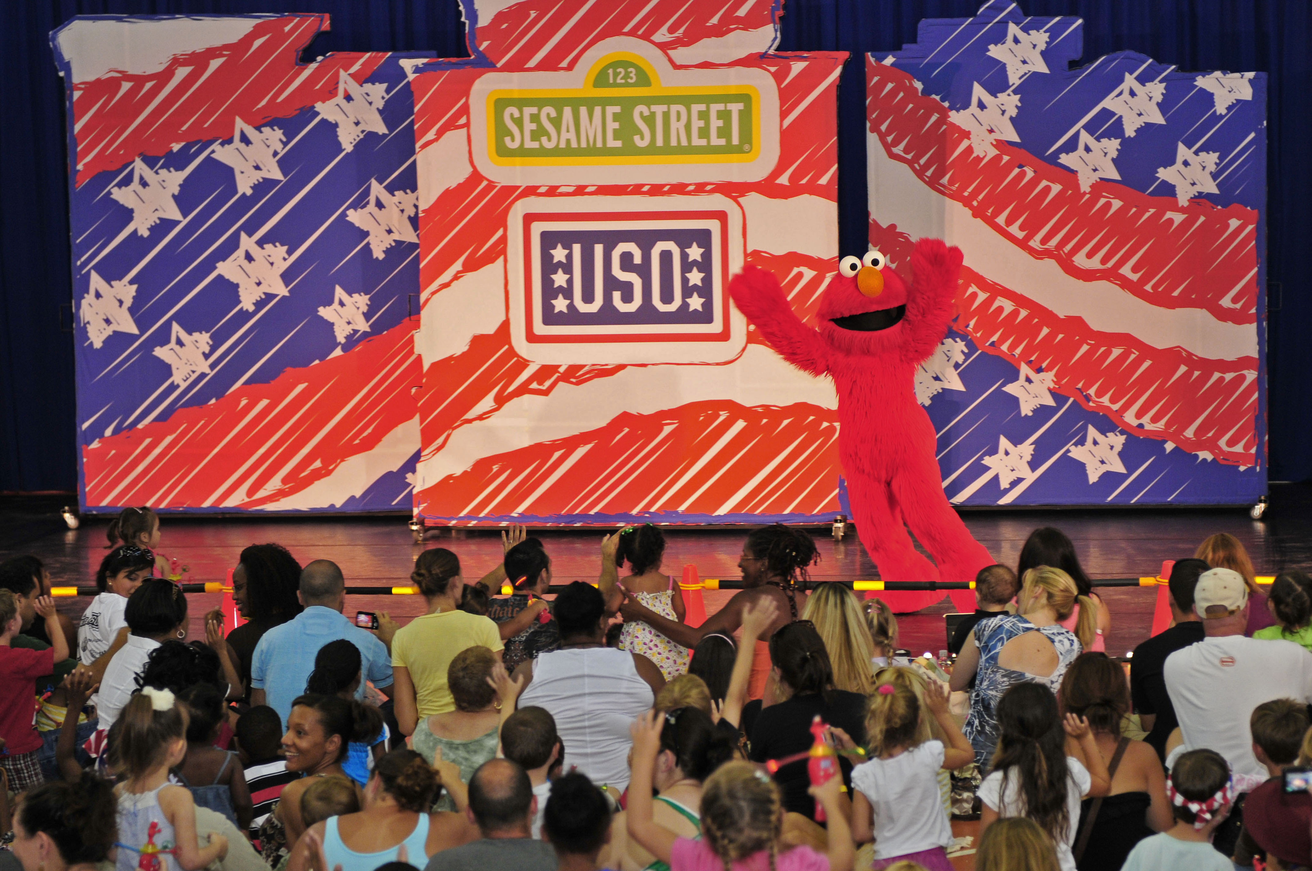 NAPLES, Italy (July 22, 2011) Elmo greets the audience during a Sesame Street Live children's show at Naval Support Activity Naples during a USO and the Morale, Welfare and Recreation event. The show entertained audiences while addressing military family concerns such as separation during deployments and being a new kid at school. (U.S. Navy photo by Mass Communication Specialist 2nd Class Felicito Rustique/Released)